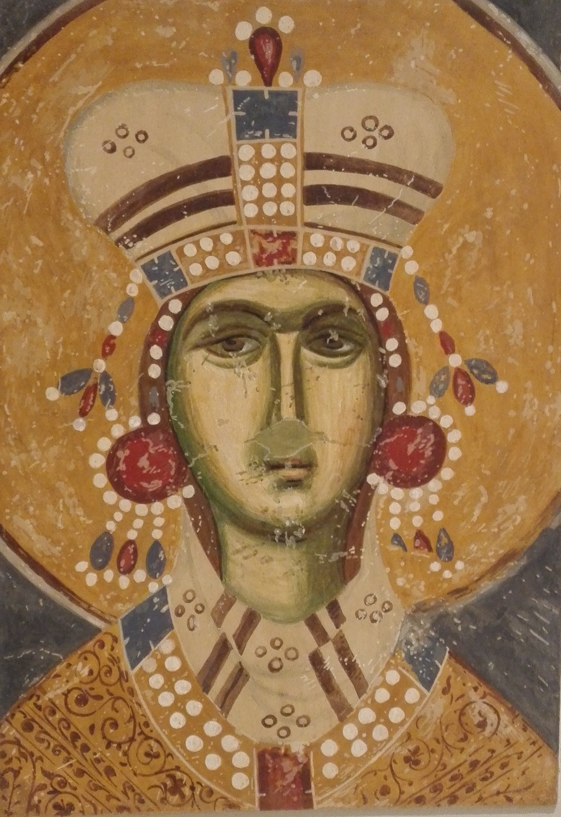 Saint Barbara, detail of the fresco in the Church of the Virgin Ljeviška in Prizren, 1310-1314, copy. Copied by Zdenka and Branislav Živković, 1962? Gallery of Frescoes of the National Museum in Belgrade